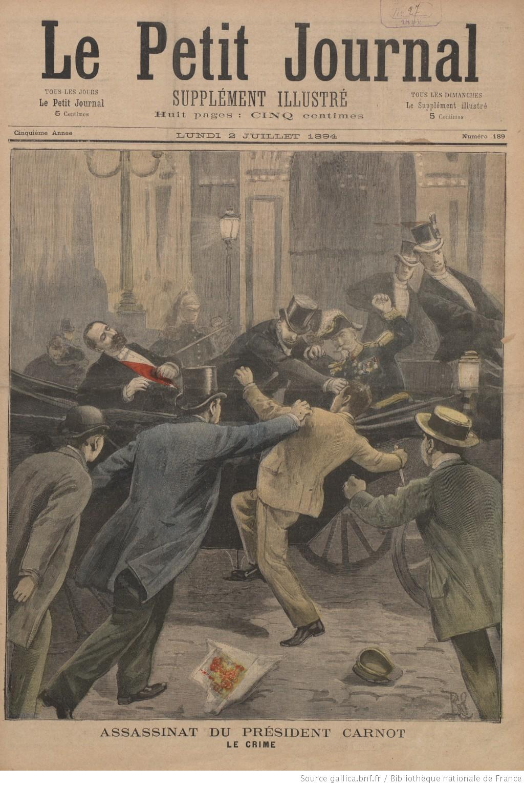 Depiction from Le Petit Journal Illustre (2 July 1894) of the assassination of President Sadi Carnot of France.